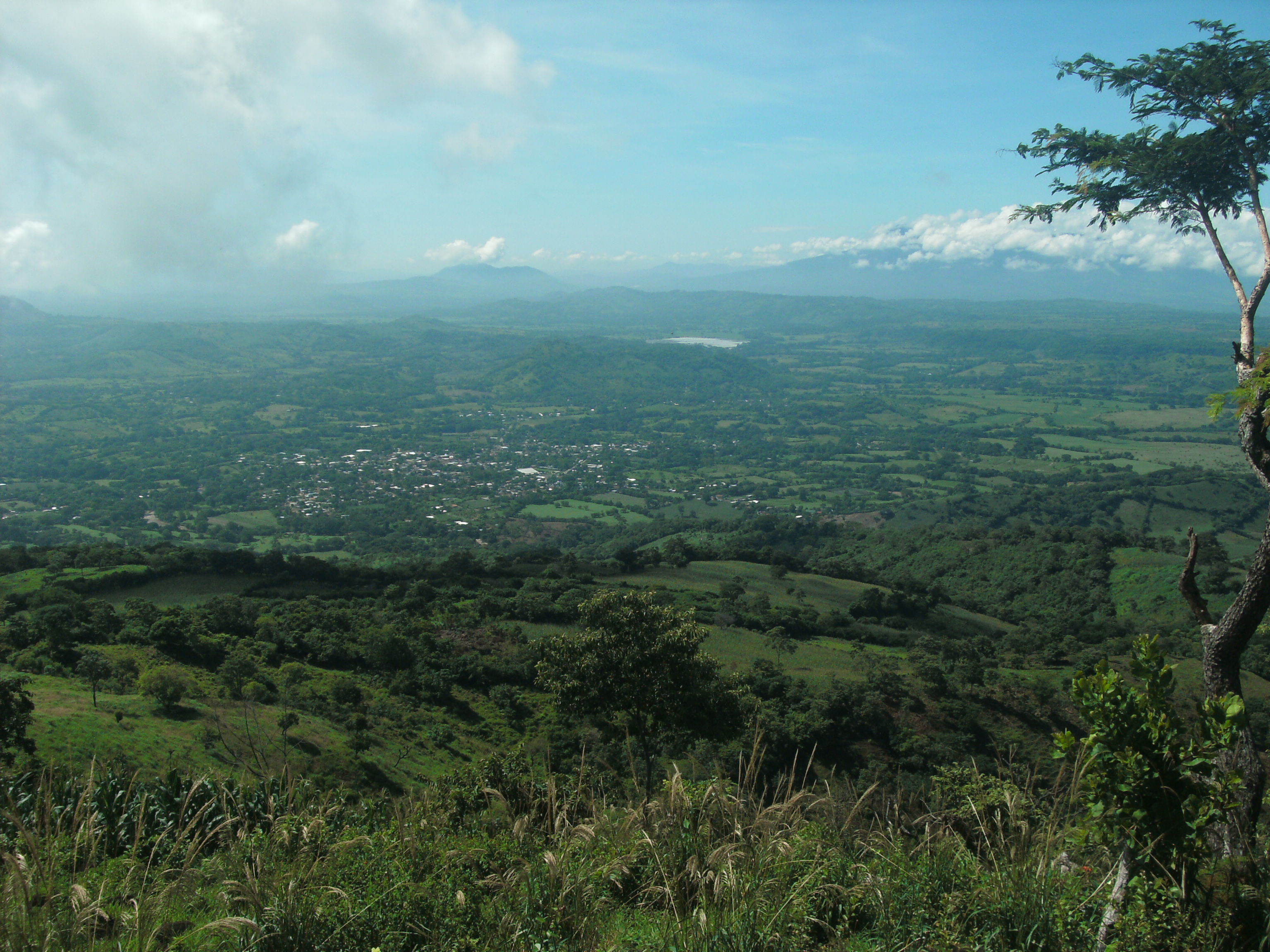 Vista de la ciudad desde el cerro el Bonete.